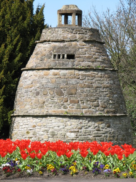 Doocot, Linlithgow canal basin This 16th century doocot (dovecot) just sneaks inside the northern edge of the square.